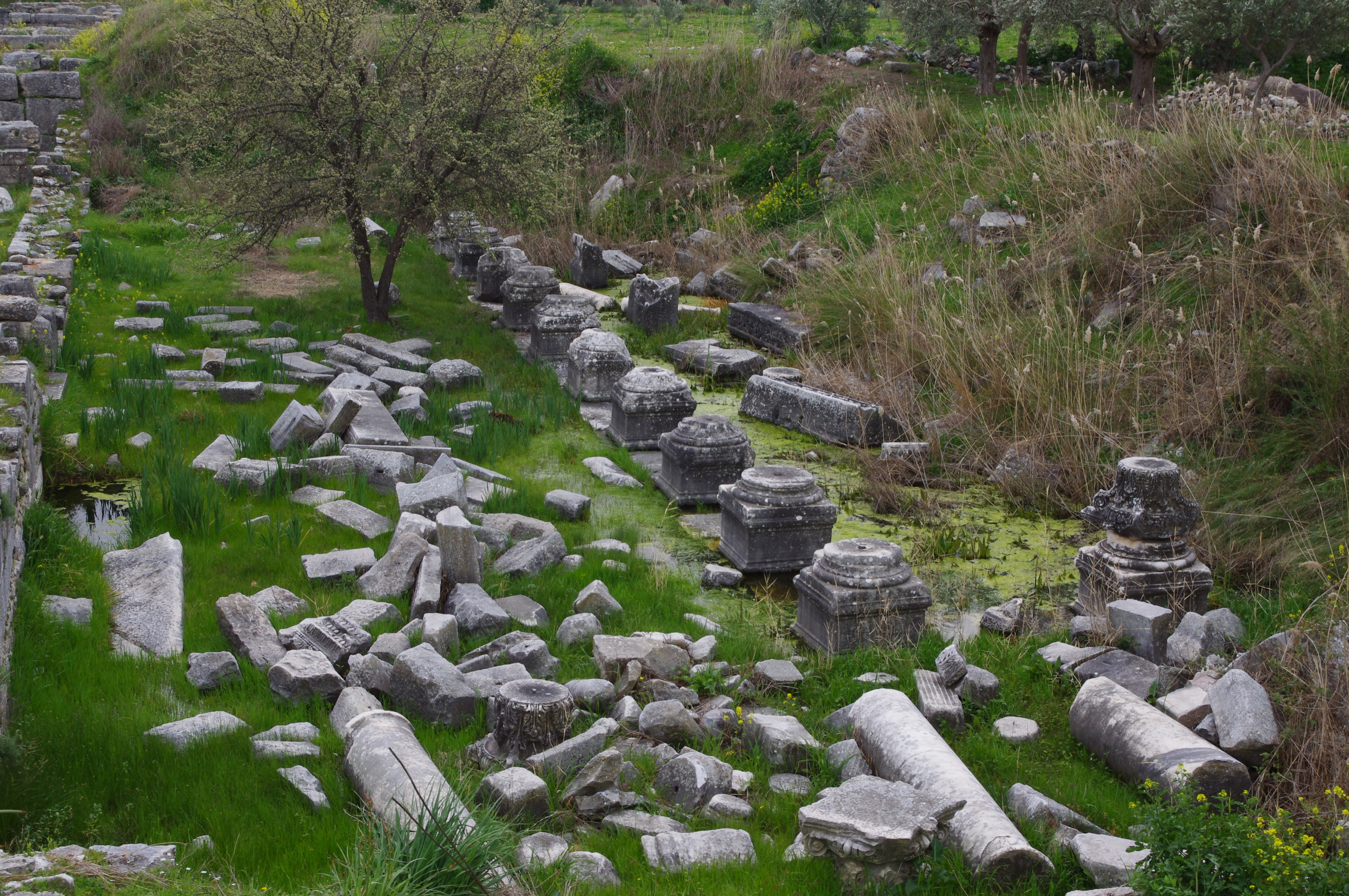 These are the remains of the covered portico (stoa) connecting the ancient Bath of Faustina at Miletus to the exercise area or palaestra. As you can tell from this photo, over the centuries silt carried down by the Meander river covered the entire city of Miletus many feet deep. To expose these ruins, tons of silt and the plants that had grown on it had to be cleared away.